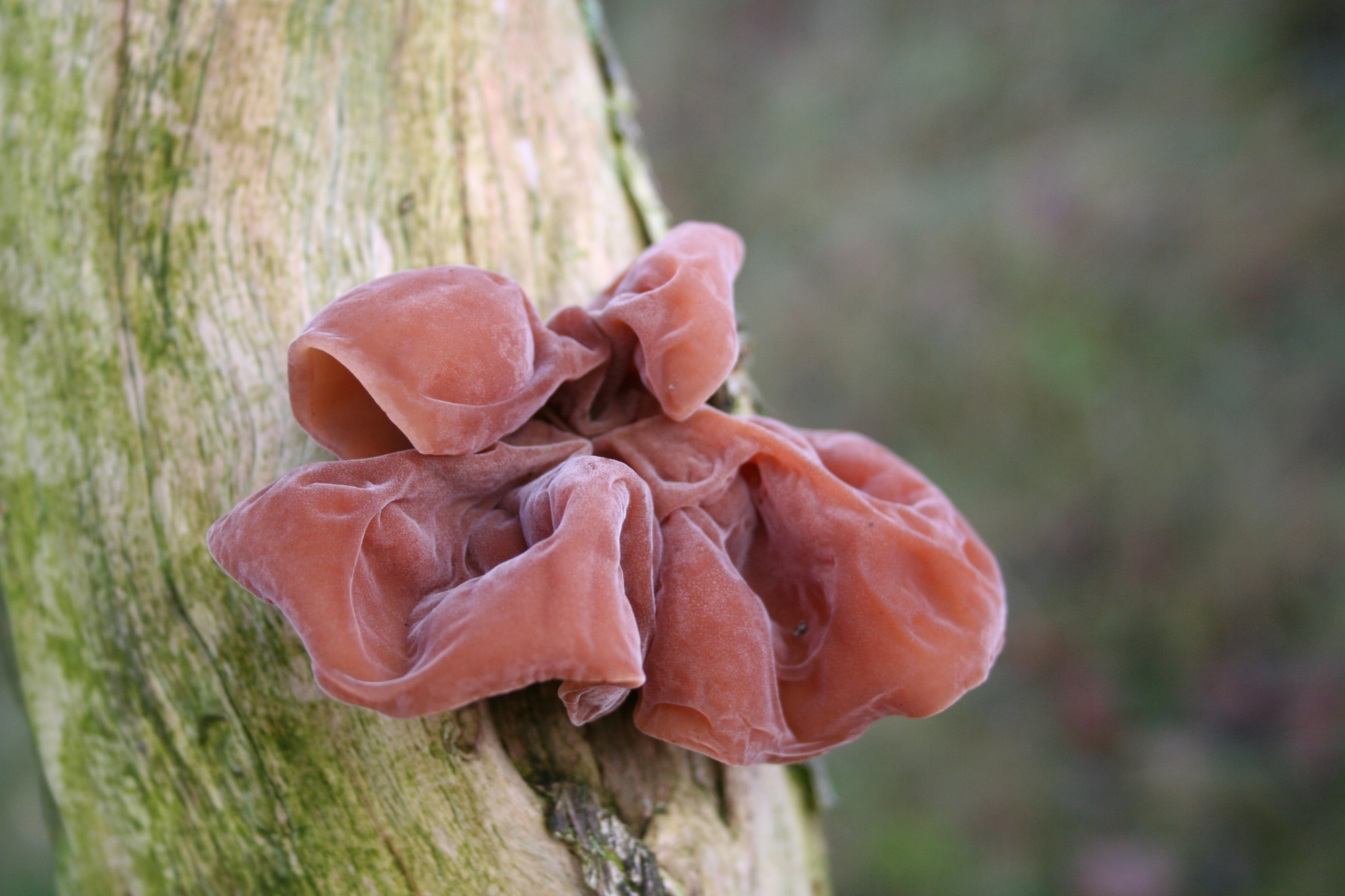 Systematics: Fungi - Basidiomycota - Heterobasidiomycetes - Auriculariales - Auriculariaceae - Auricularia auricula-judae Photo by Svdmolen 13 november 2005 the Netherlands